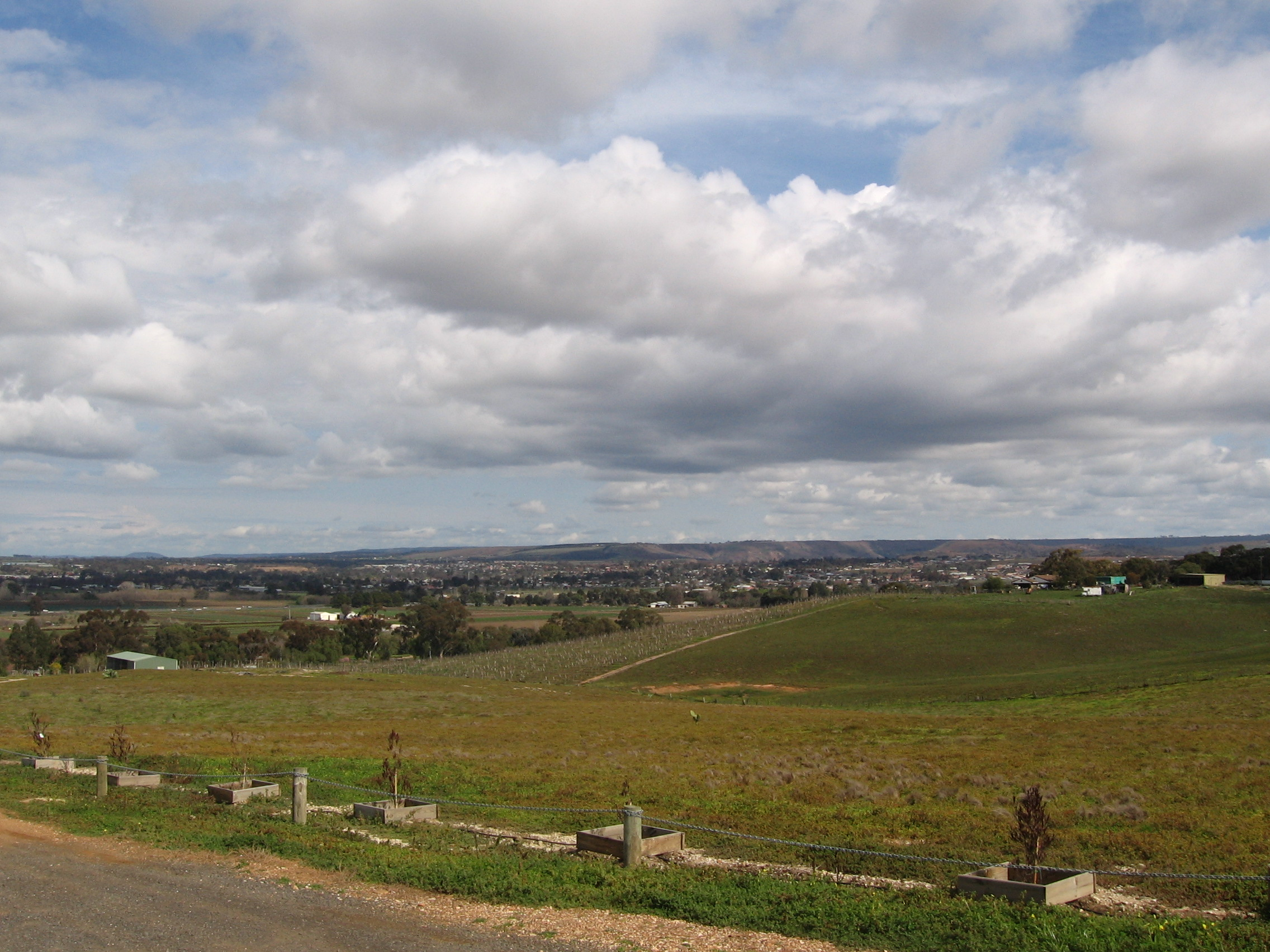 Bacchus Marsh, Victoria seen from Bacchus Hill winery